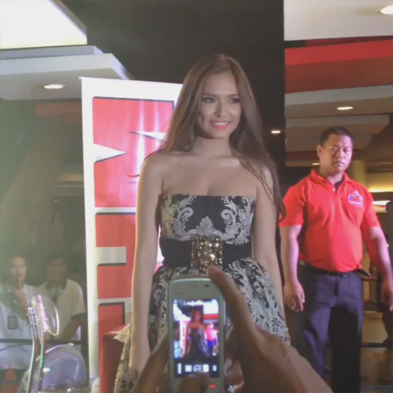 Garcia poses before the photographers during her FHM cover magazine autograph signing in September 2013